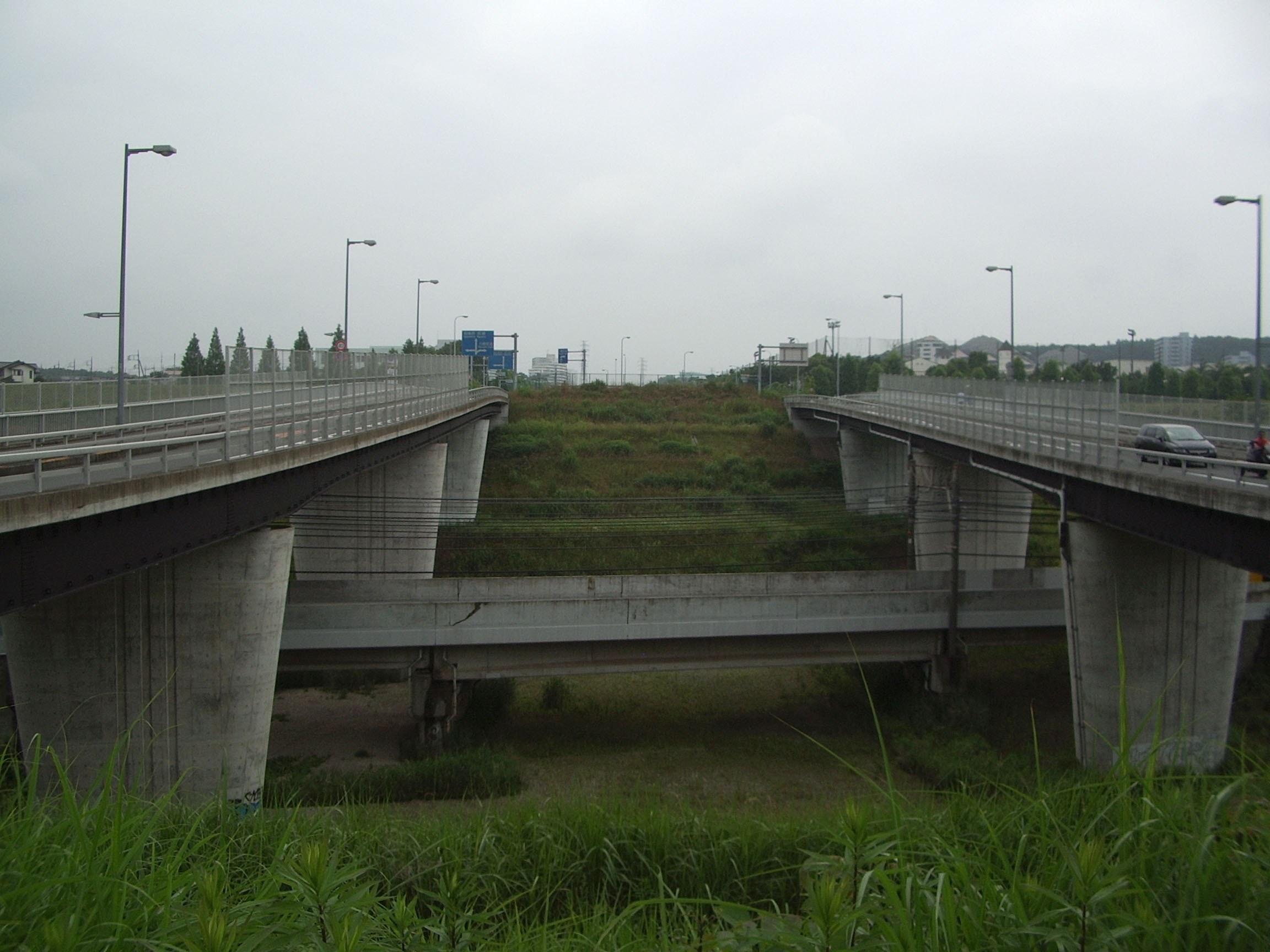 Tateyato and Onekansen at Koyodai, Inagi, Tokyo